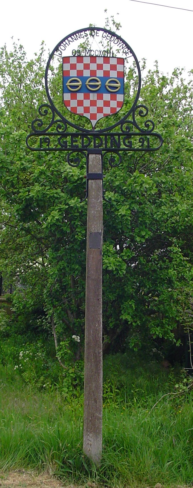 Signpost in Gedding